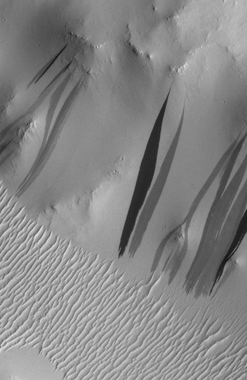 Dark Slope Streaks in central Arabia Terra